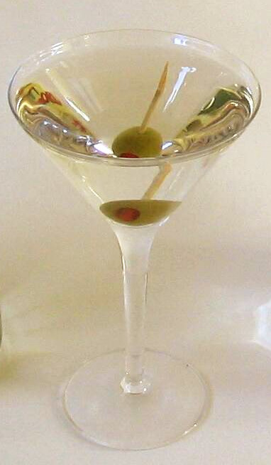 A gin martini, with olive, in a cocktail glass.